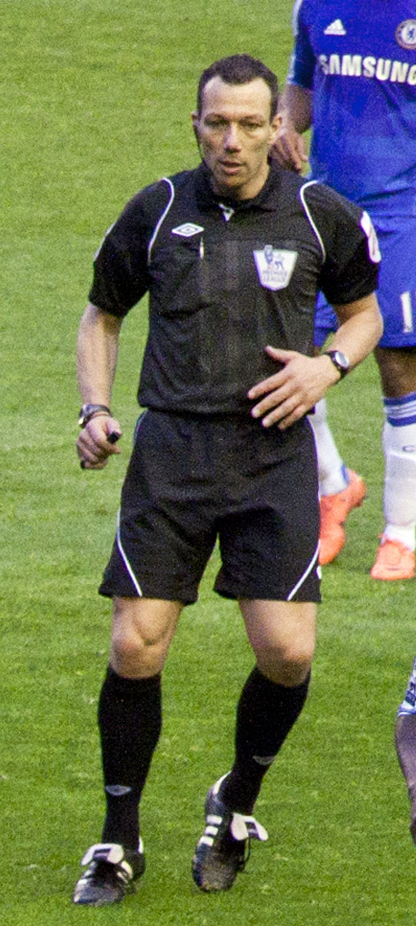 Luis Suarez against Chelsea FC defenders.